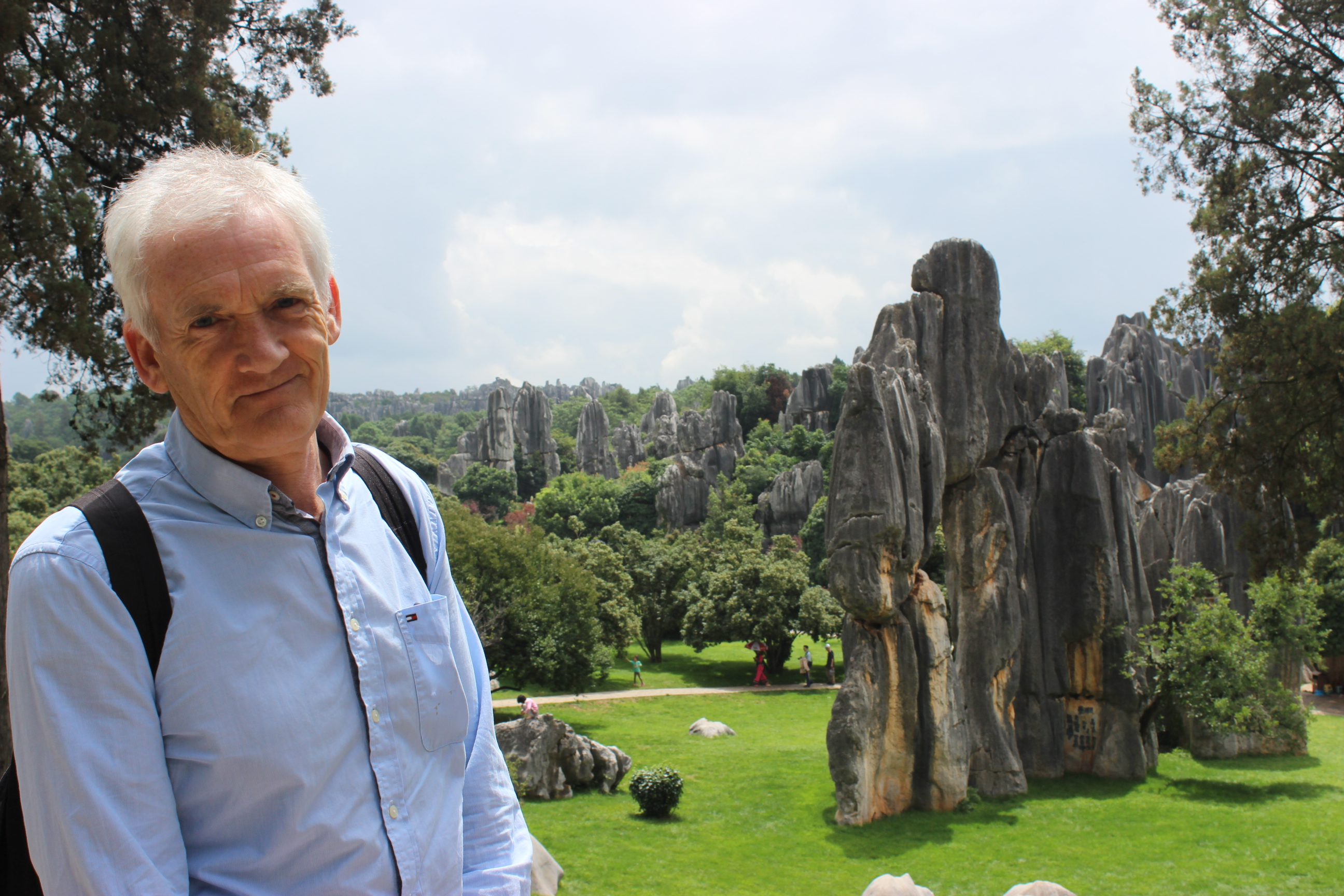 Professor Steven M Smith at the Stone Forrest, China